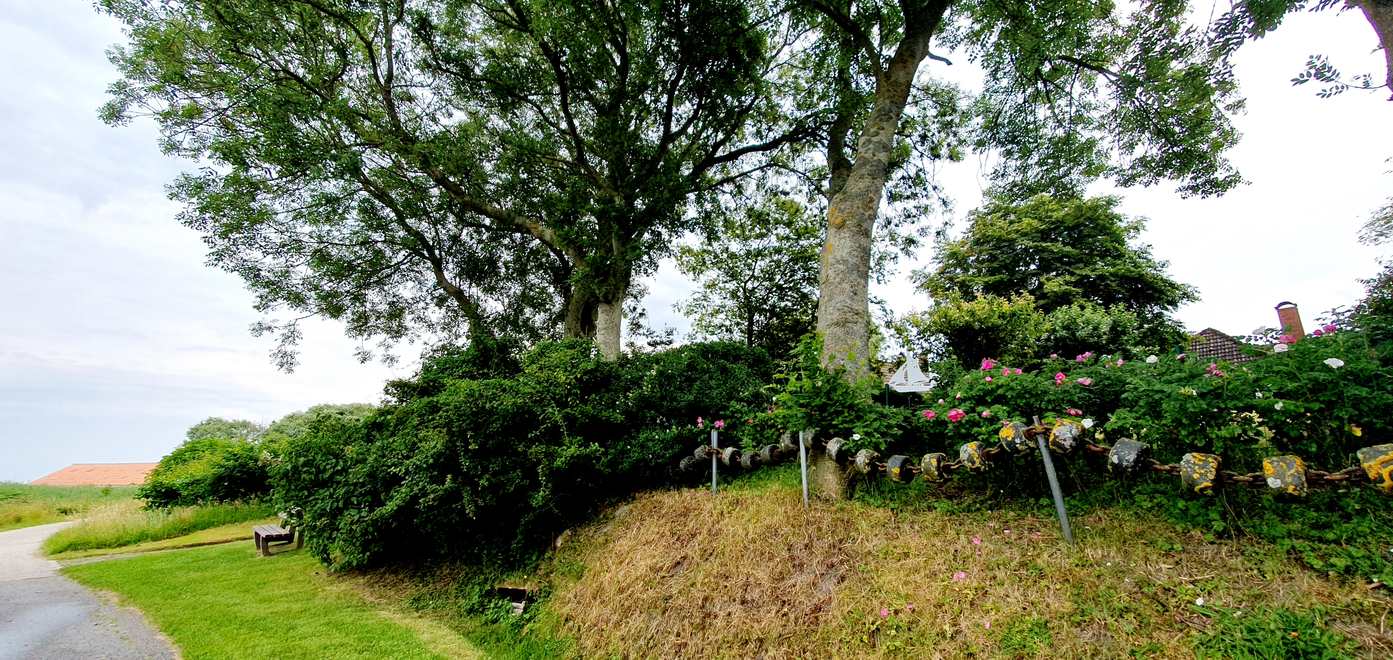 The street "Hauener Ring" surrounds a few old Houses.